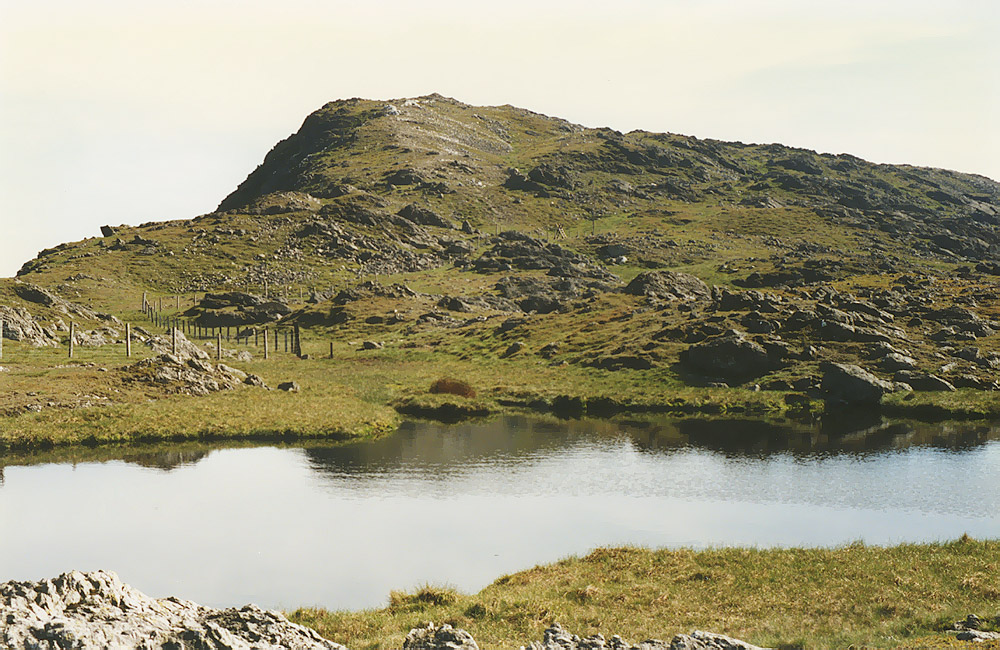 Llyn Pen Aran This little llyn is not far from the summit of Aran Benllyn, which can be seen ahead.